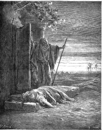 The Israelite discovers his concubine, dead on his doorstep - by Gustave Doré, Circa 1880.